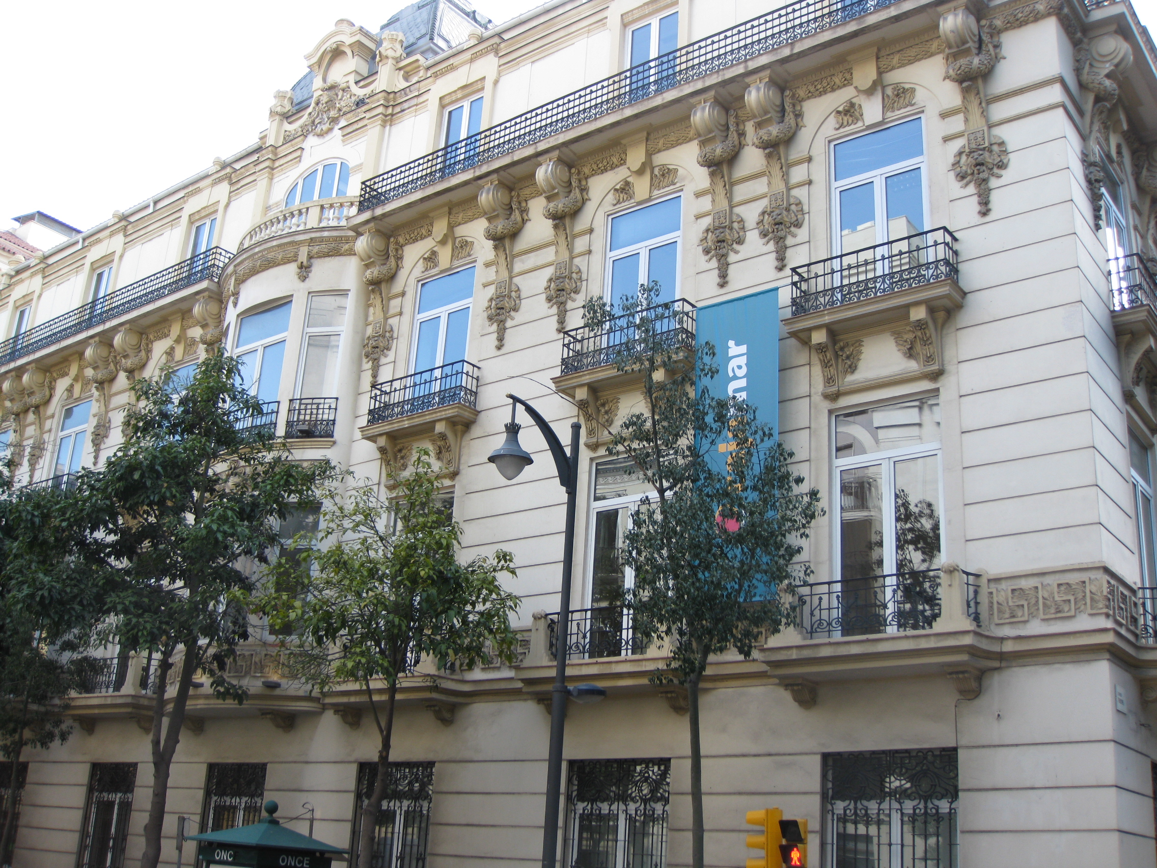 Former Banco Hispanoamericano, Málaga, Spain. Architects: Manuel Rivera Vera & Fernando Guerrero Strachan. Built 1906-1914. Elevation to calle Córdoba